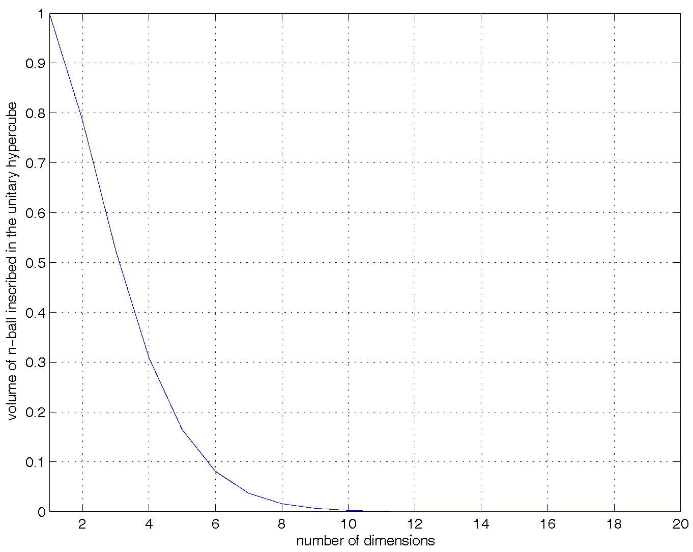 Plot of the volume of a hyper-sphere included into a hypercube of side one. as function of the number of dimensions.